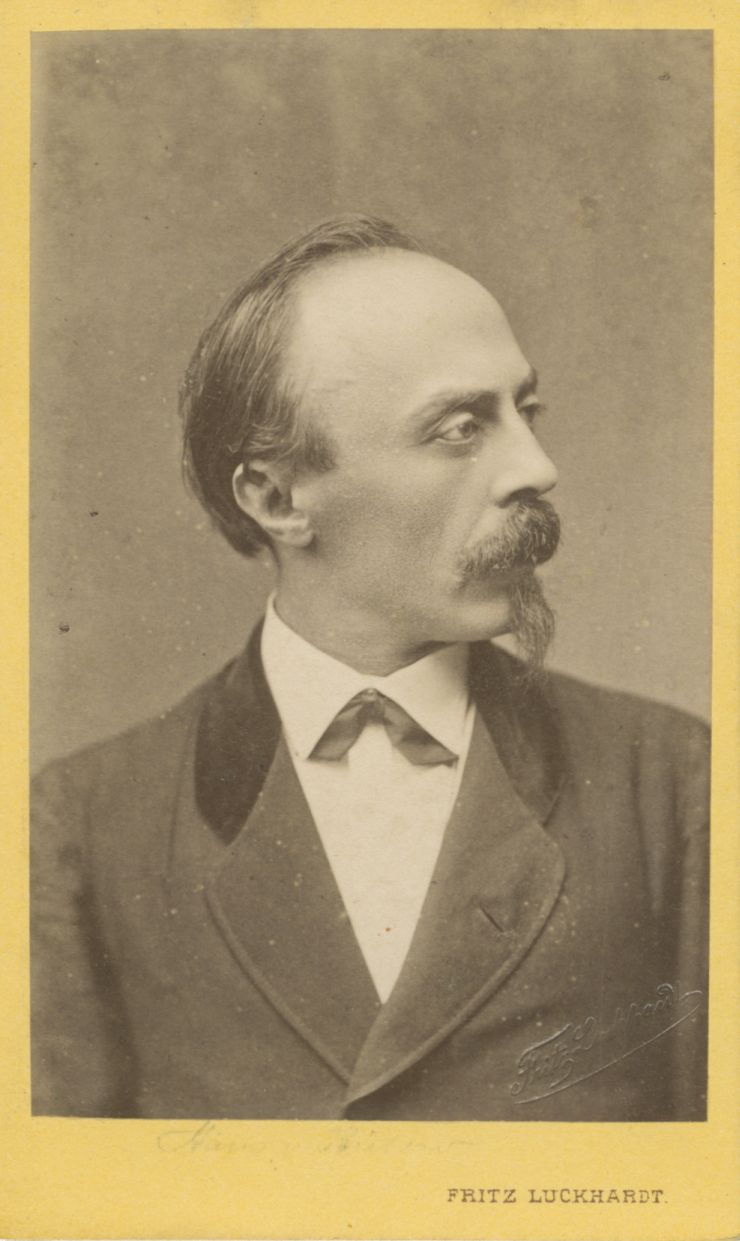 Artist: Fritz Luckhardt Date/place: Unknown date/Vienna Subject: Hans von Bülow Medium: Phototgraphic posetive Notes: German pianist. Born in Dresden 08.01.1830 - dead in Cario 12.02. 1894 Original belongs to the Archives at [#//bergenbibliotek.no/digitale-samlinger” Bergen Public Library]